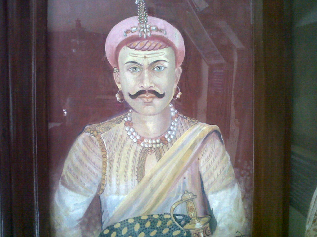 A portrait of Chimaji Ballal Peshwa, a part of the Peshwa Memorial atop Parvati Hill in Pune, India. He was the General of Mahratta forces.